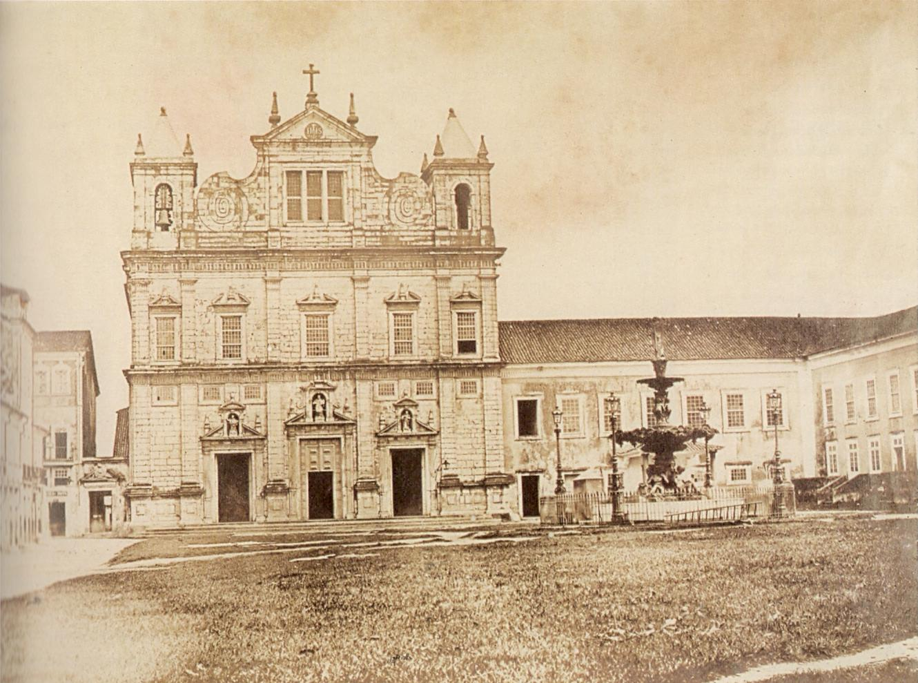 Church of Jesuítas (now Cathedral Basílica), Salvador in Bahia, 1858.